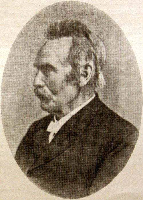 Danish writer Carl Brosbøll(1816-1900), writing under the pseudonym CaritEtlar